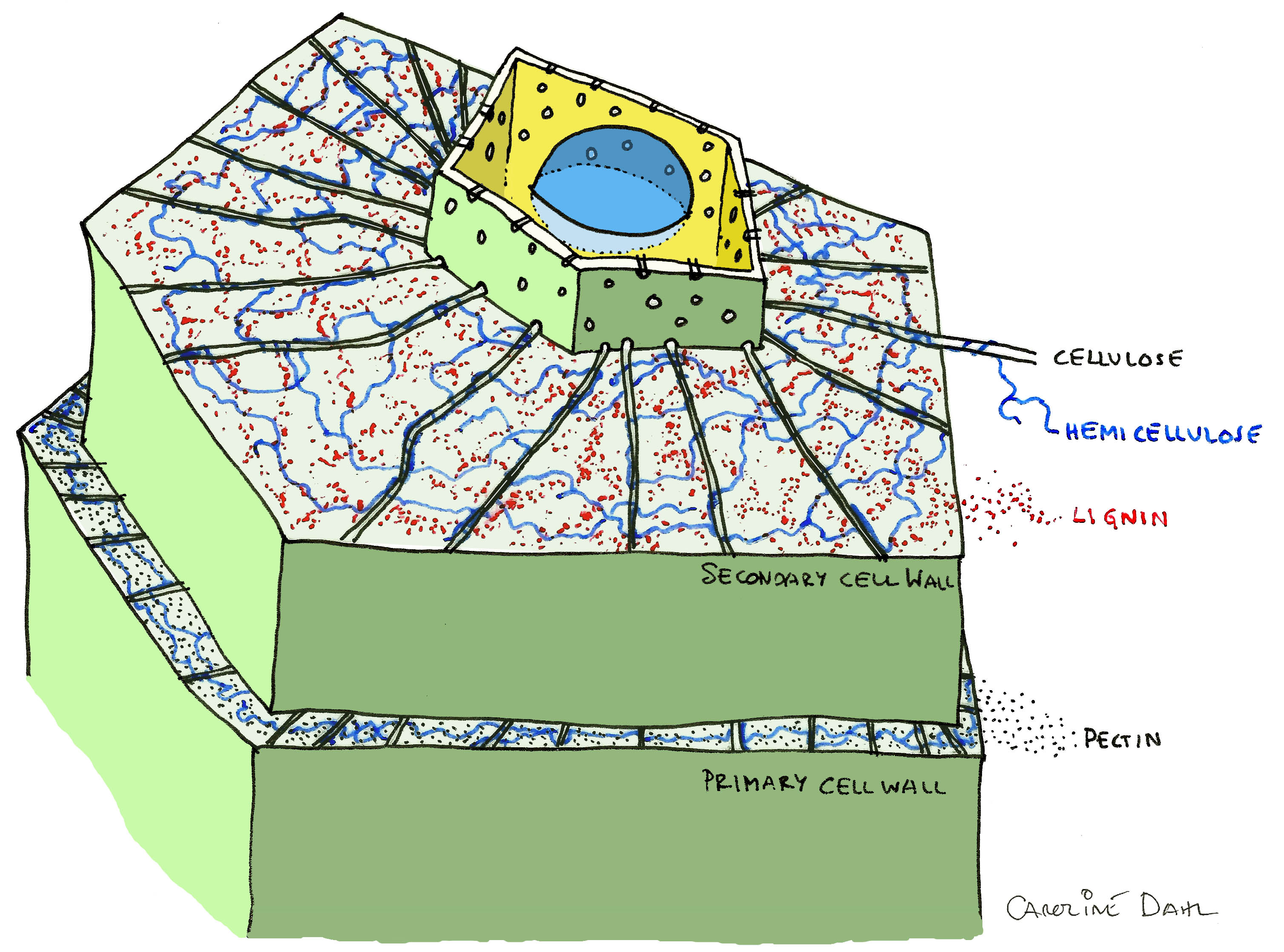 Growing plant cells produce a primary cell wall around themselves. Some cells add a sturdy secondary cell wall to protect themselves against pathogens and drought. The strength of the secondary cell wall is primarily provided by lignin (and the size of the wall). The plant cell, with a vacuole in blue, is shown in the middle.